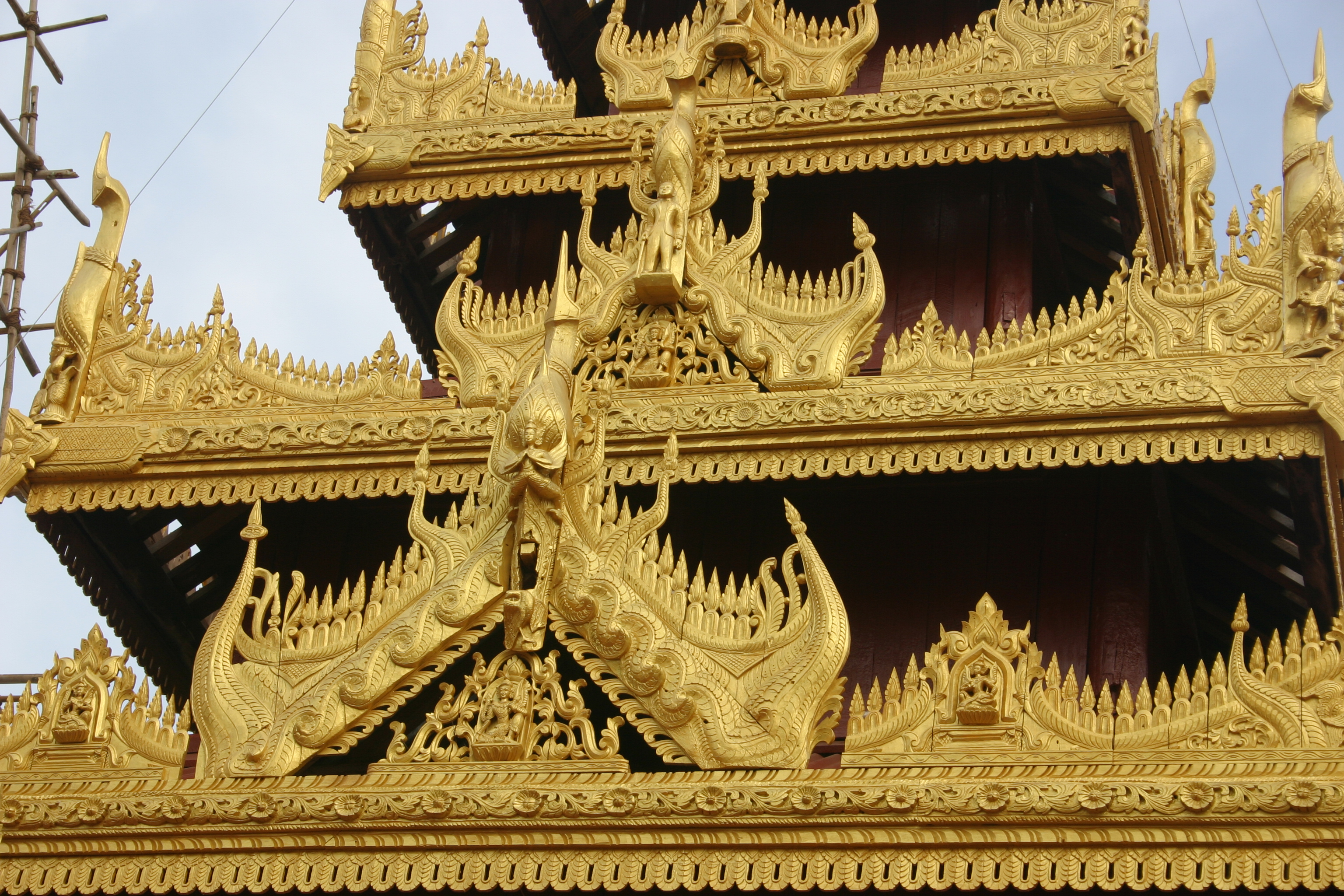 Shwezigon pagoda, Bagan, Myanmar.